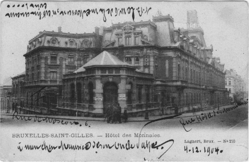 Picture of the Mint of Brussels. Taken in 1904. (digital copy from